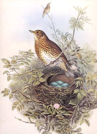 A song thrush perched high up in the willow tree at the bottom of the garden by John Gould, Birds of Great Britain, London, 1873.